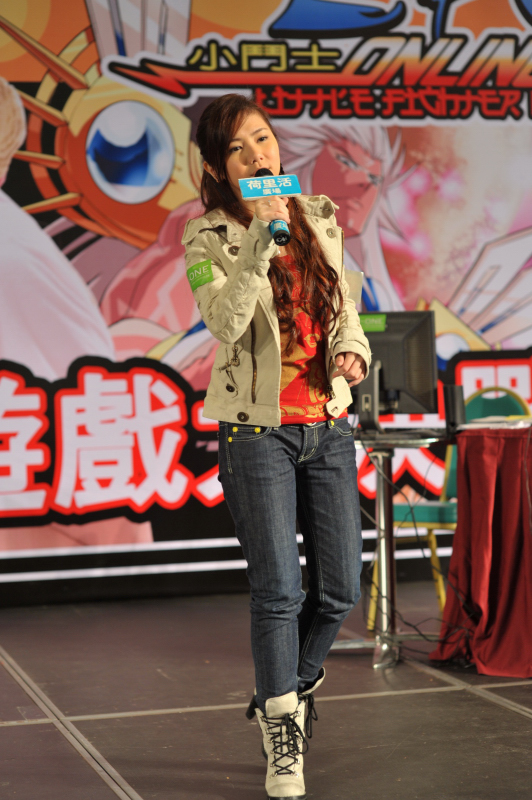 Hong Kong singer G.E.M. singing at an event